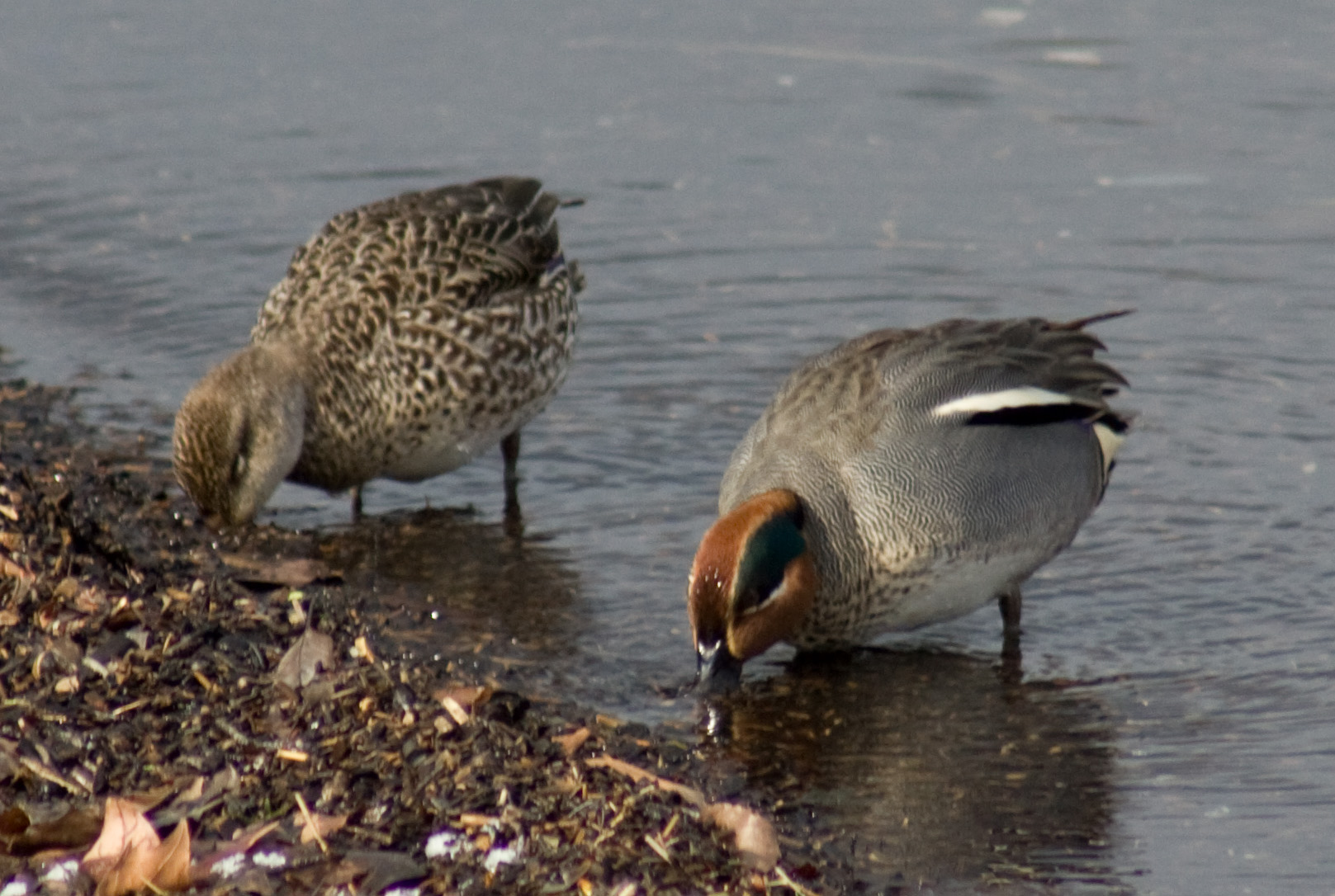 A pair of Common Teal Anas crecca at Neuenburger See - Switzerland